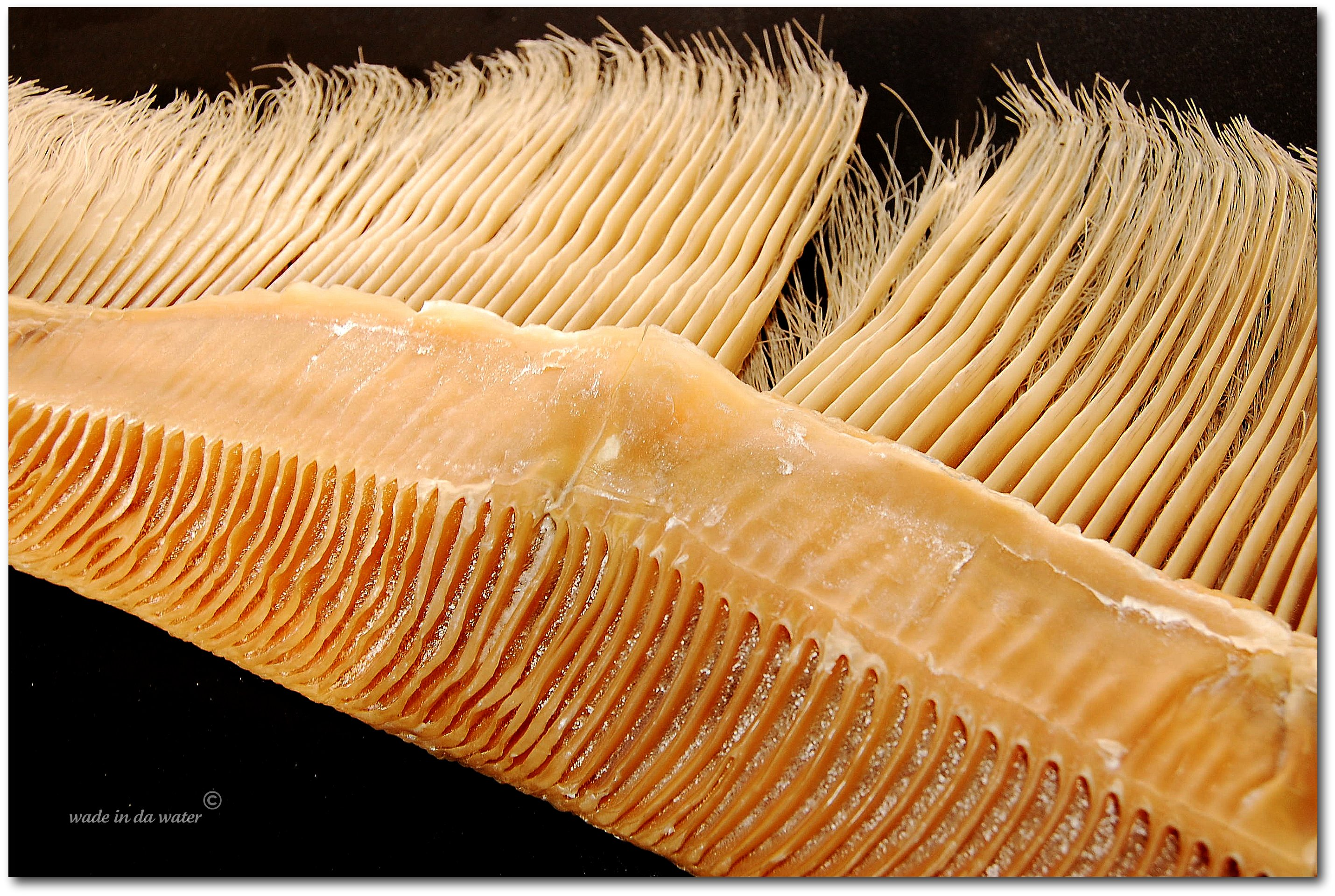 Baleen or whalebone - UBC Biodiversity Museum